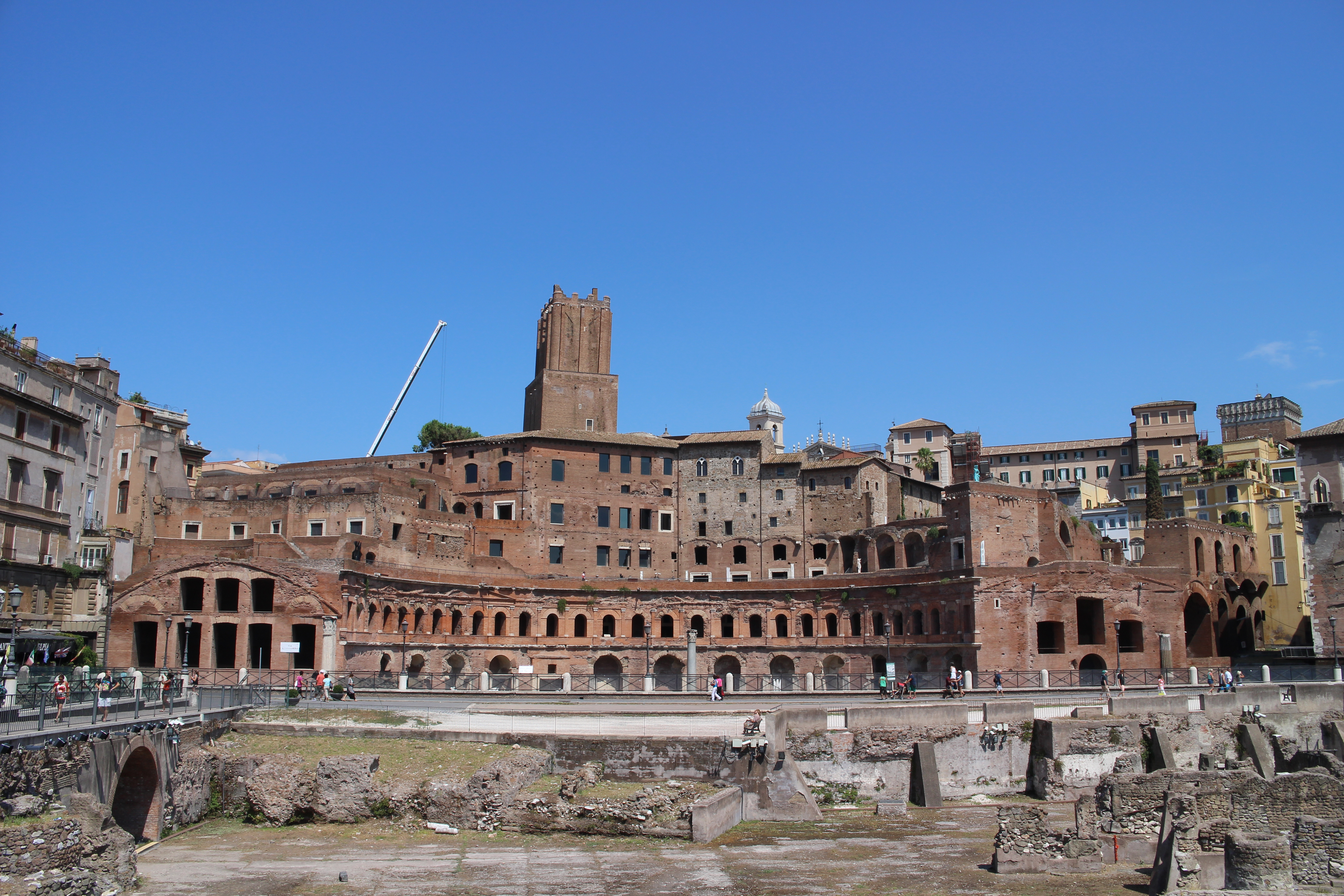 Trajan's Market